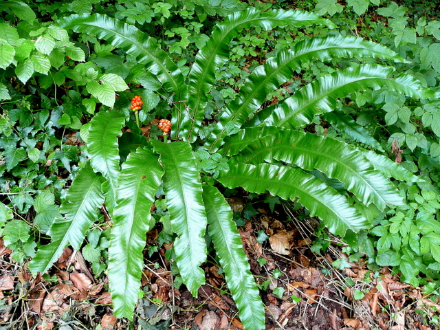 A fine Hart's-tongue Fern, Asplenium scolopendrium Growing next to the lane through Bond's Wood on the western fringe of the Forest of Dean. The two fruiting spikes of Arum maculatum, Lords and Ladies, completes the woodland scene.